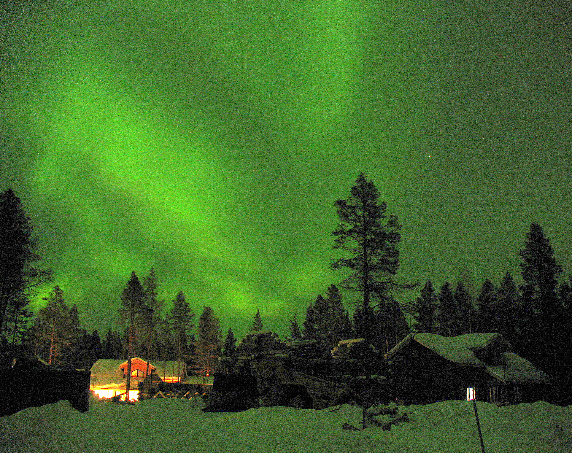 Aurora borealis